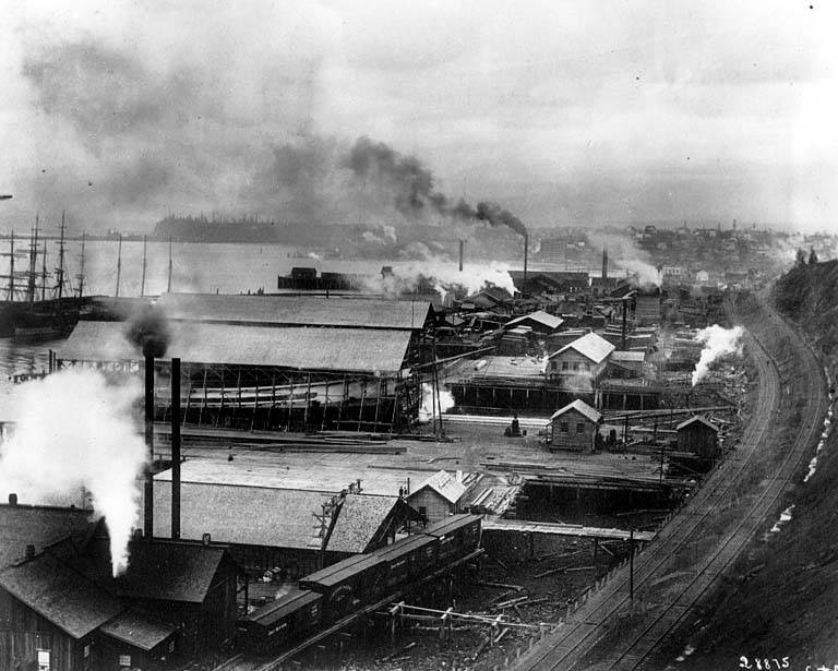 Original photographer unknown. Shows shipyards, lumber mills and tracks of the Great Northern Railroad. Subjects (LCTGM): Bays (Bodies of water)--Washington (State)--Everett; Piers & wharves--Washington (State)--Everett; Mills--Washington (State)--Everett; Lumber industry--Washington (State)--Everett; Industrial facilities--Washington (State)--Everett; Boat & ship industry--Washington (State)--Everett Subjects (LCSH): Port Gardner Bay (Everett, Wash.)